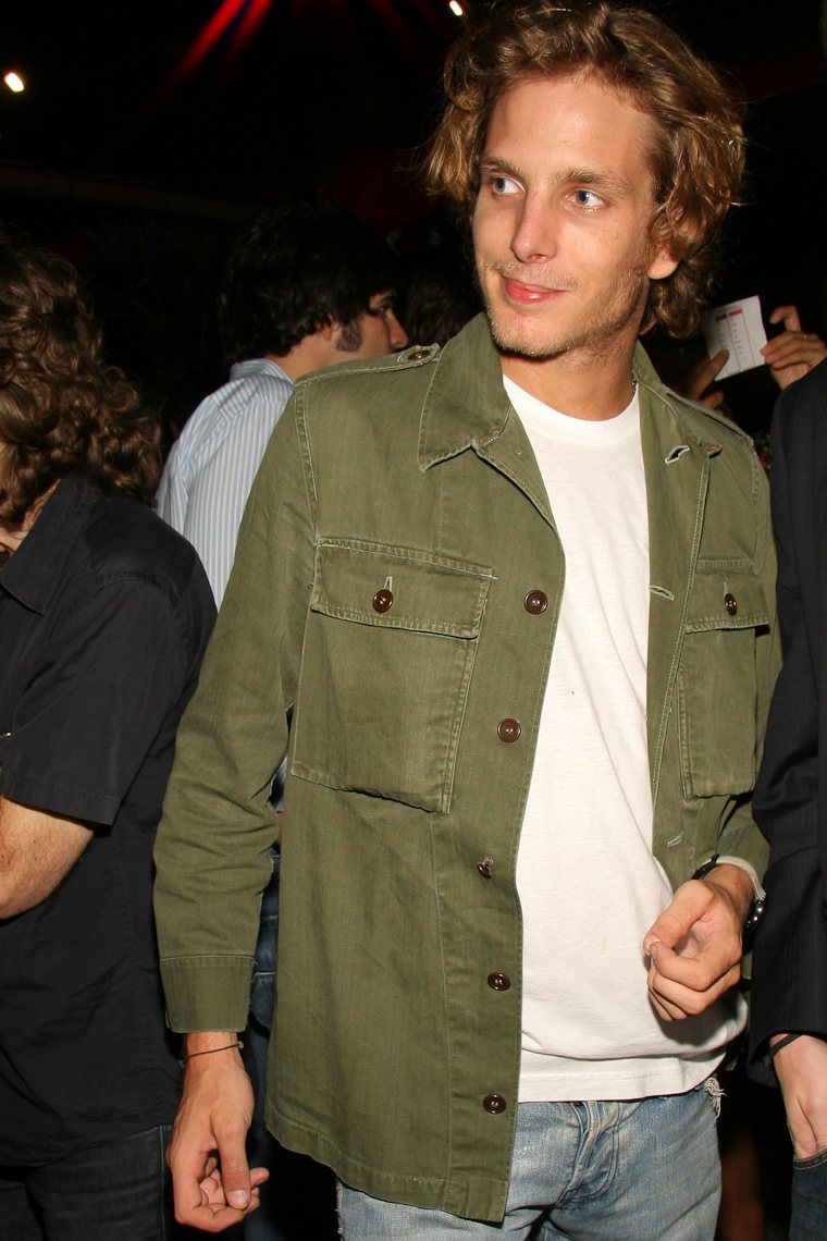 The eldest son of Princess Caroline of Monaco. Photographed here at a party for Boucheron during Spring 2009 Fashion Week. European tabloid magazines regularly dispatch photographers to get shots of this young student, as his mother is Hereditary Princess Caroline of Monaco.